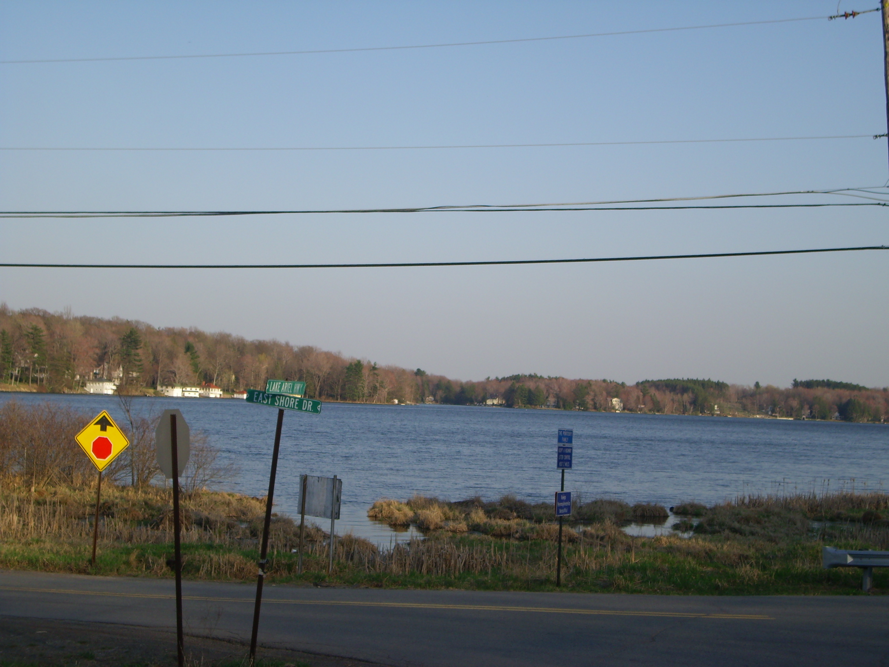 i took this picture of lake ariel in northeastern pennsylvania